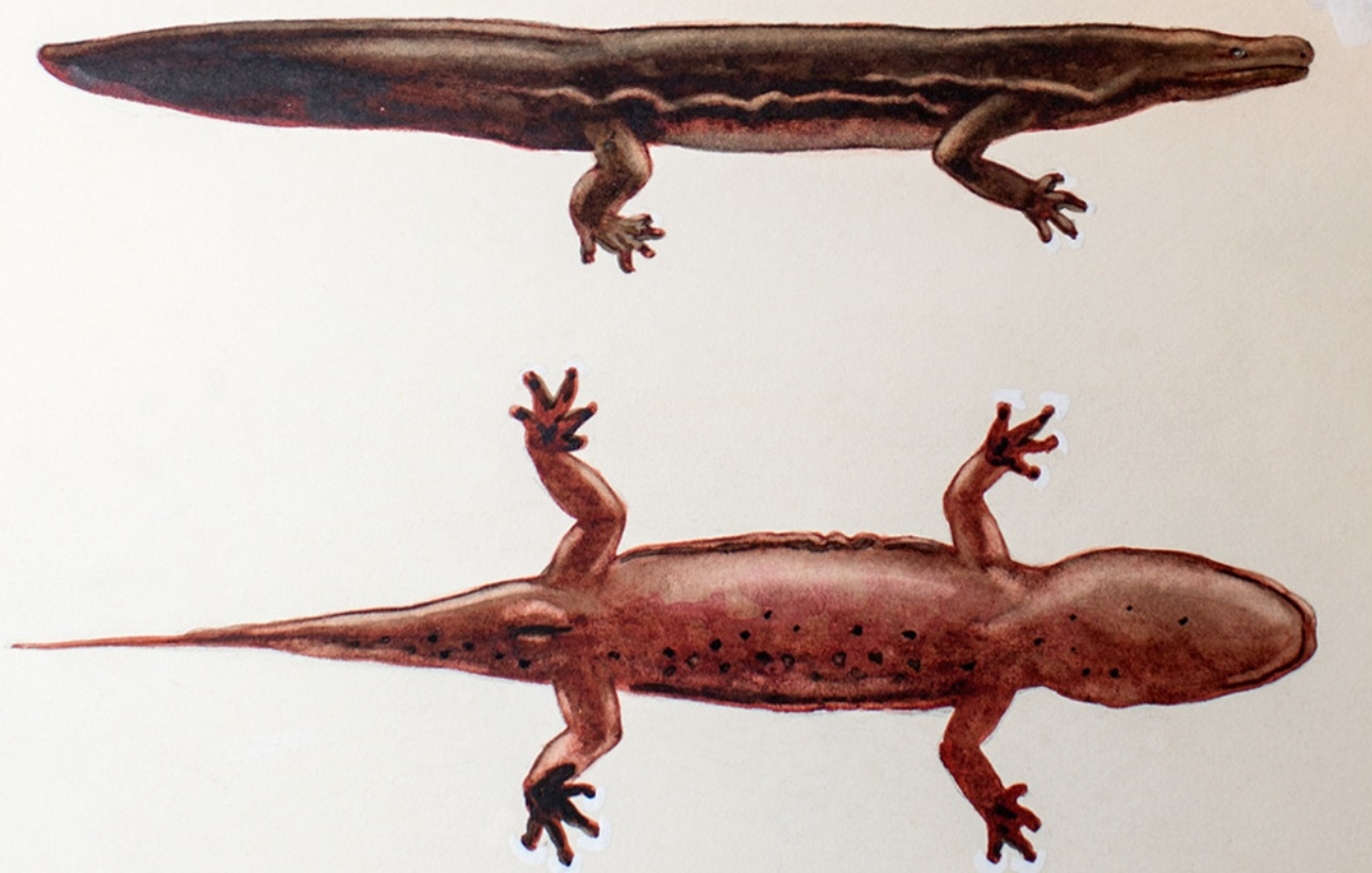 Illustration of Andrias sligoi circa 1924, author unknown